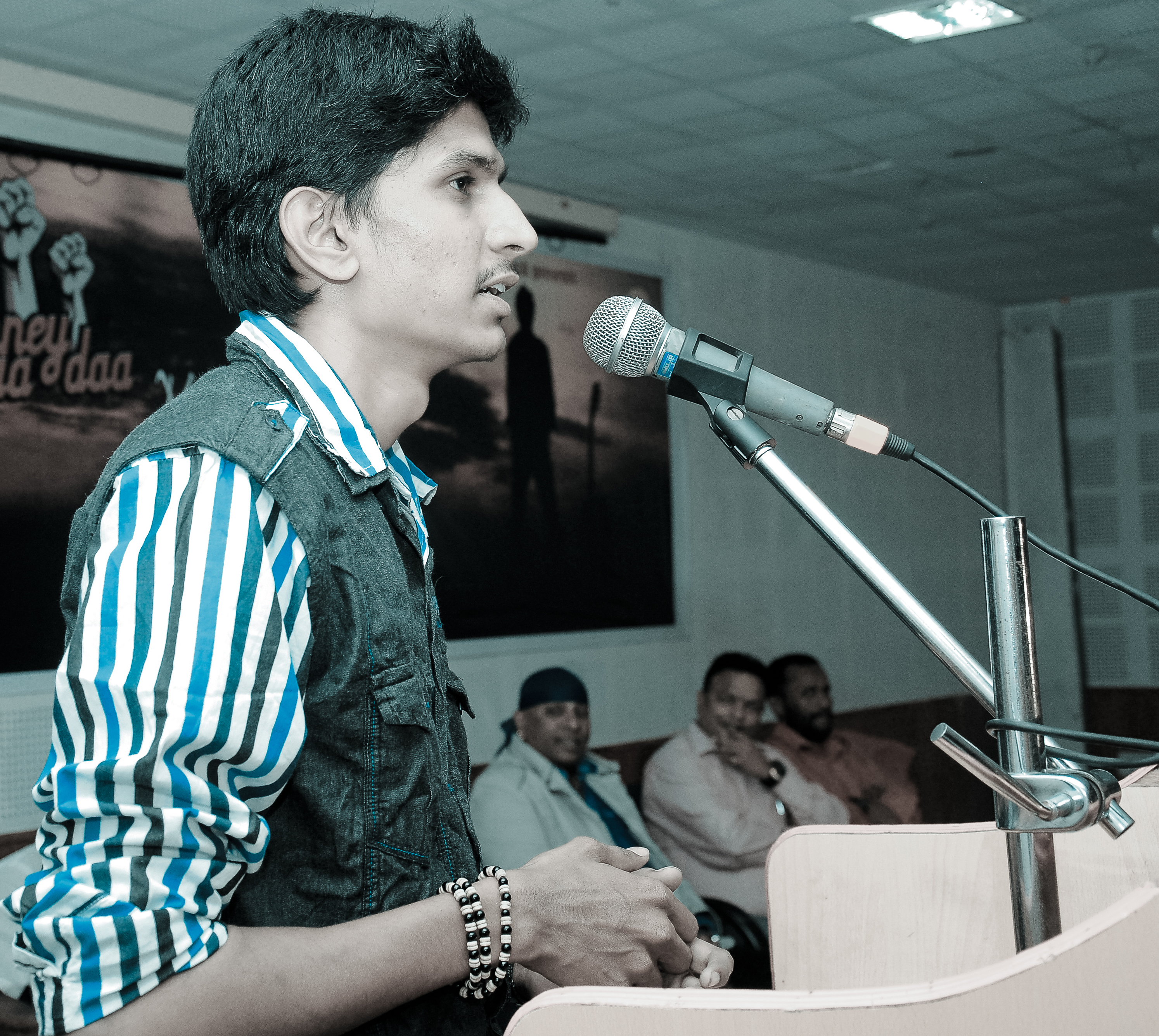 Rap Rakesh in Music Video Launch and Press Meet